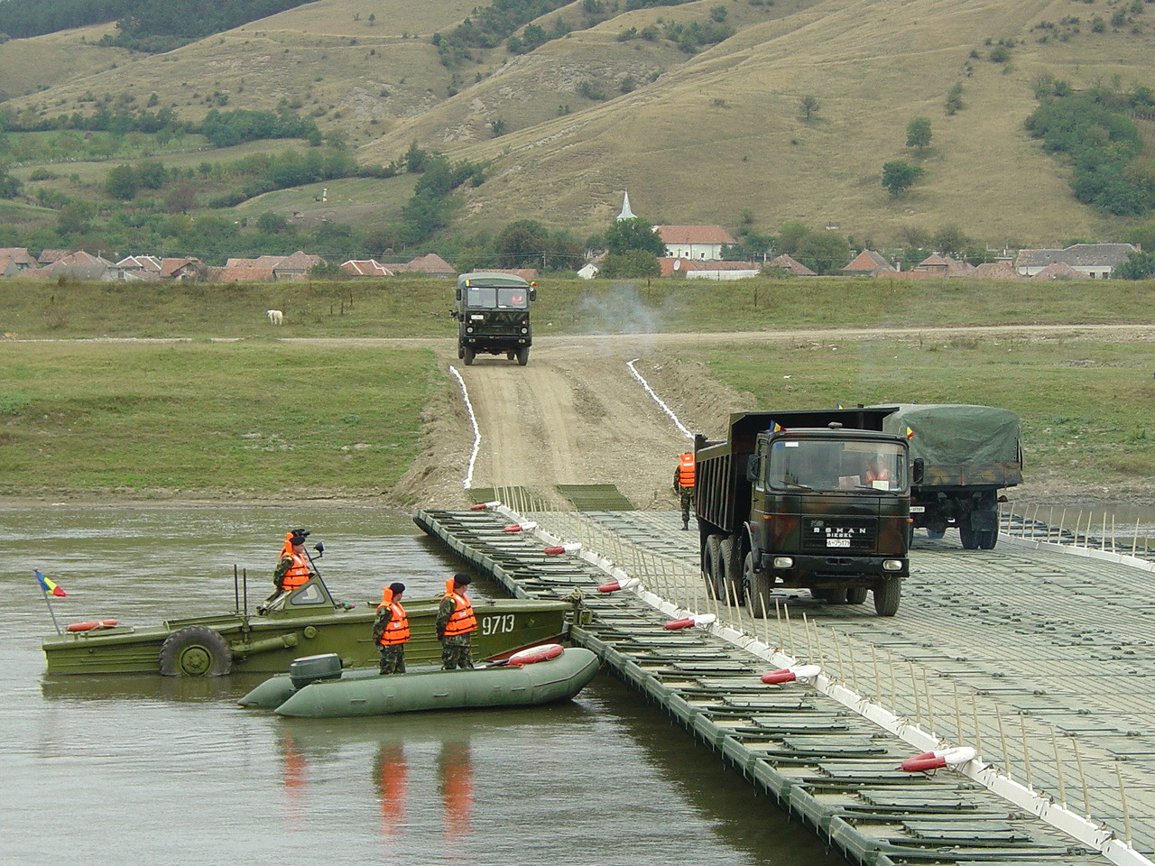 "BLONDE AVALANCHE ROU 04" multinational exercise, bridge of pontoons.